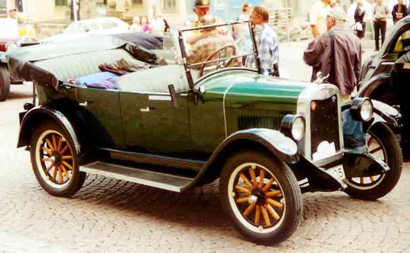 1925 Chevrolet Superior Series K Touring